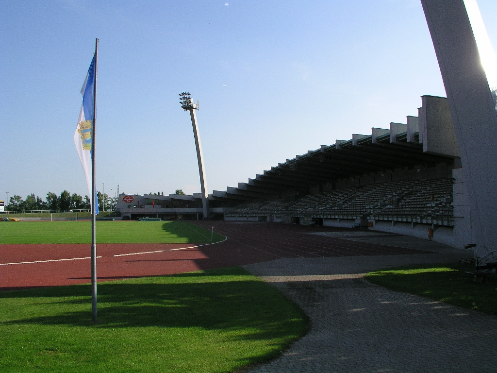 Rudolf-Tonn-Stadion-Inside